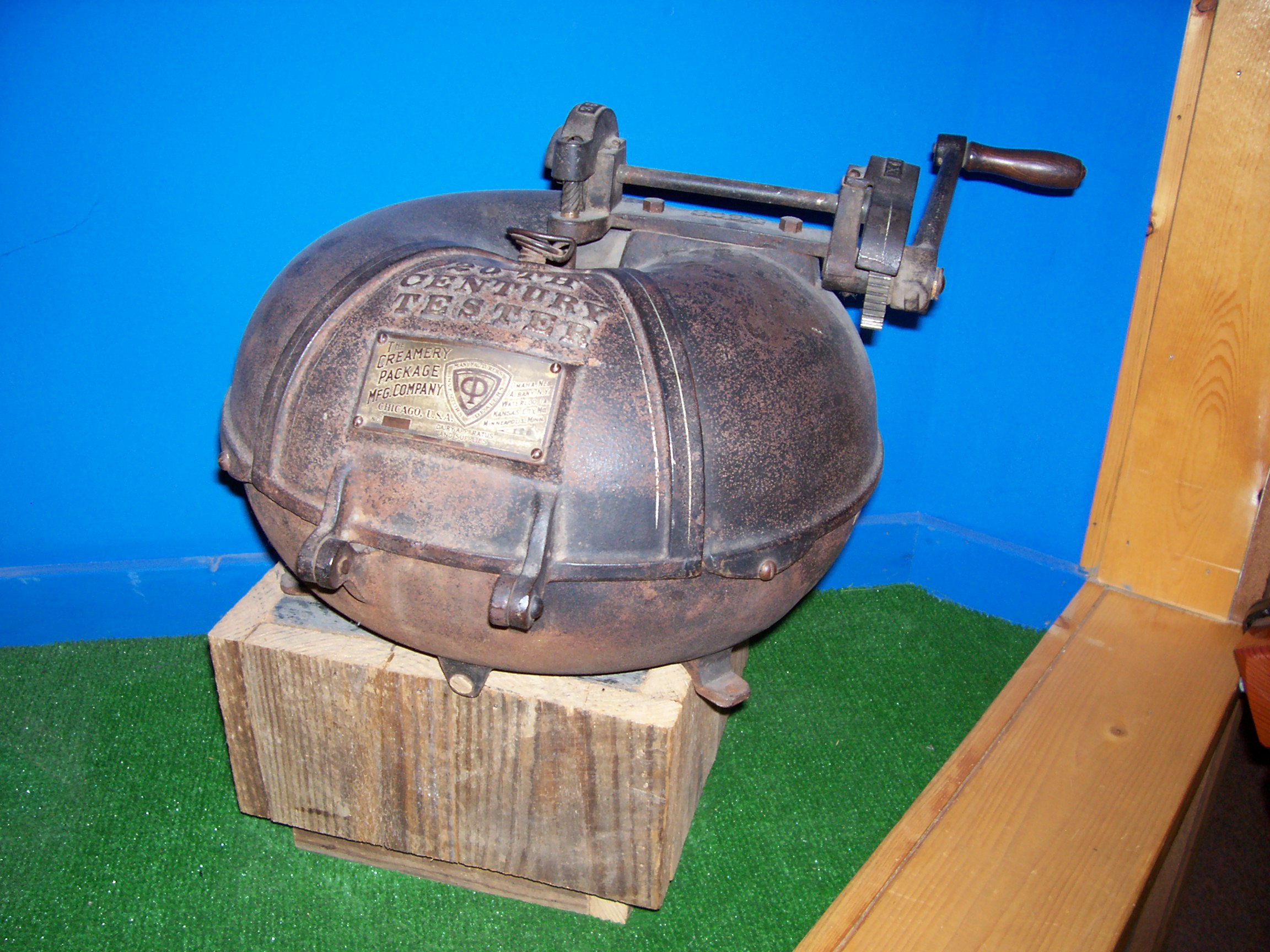 A Babcock test machine. Taken at the National Dairy Shrine in Fort Atkinson, Wisconsin, USA.